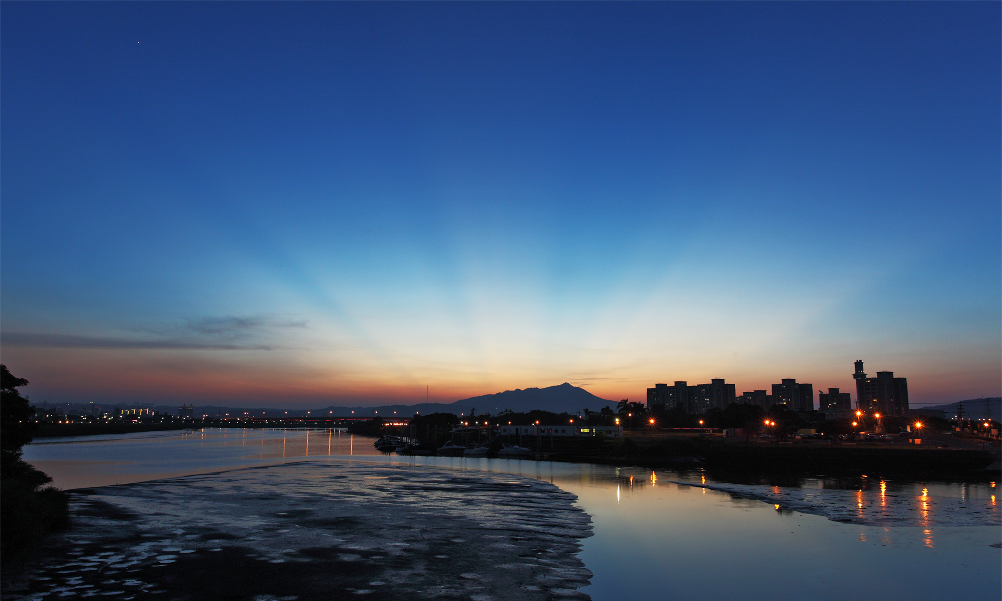 Crepuscular rays of Taipei, Taiwan photographed in July 2018